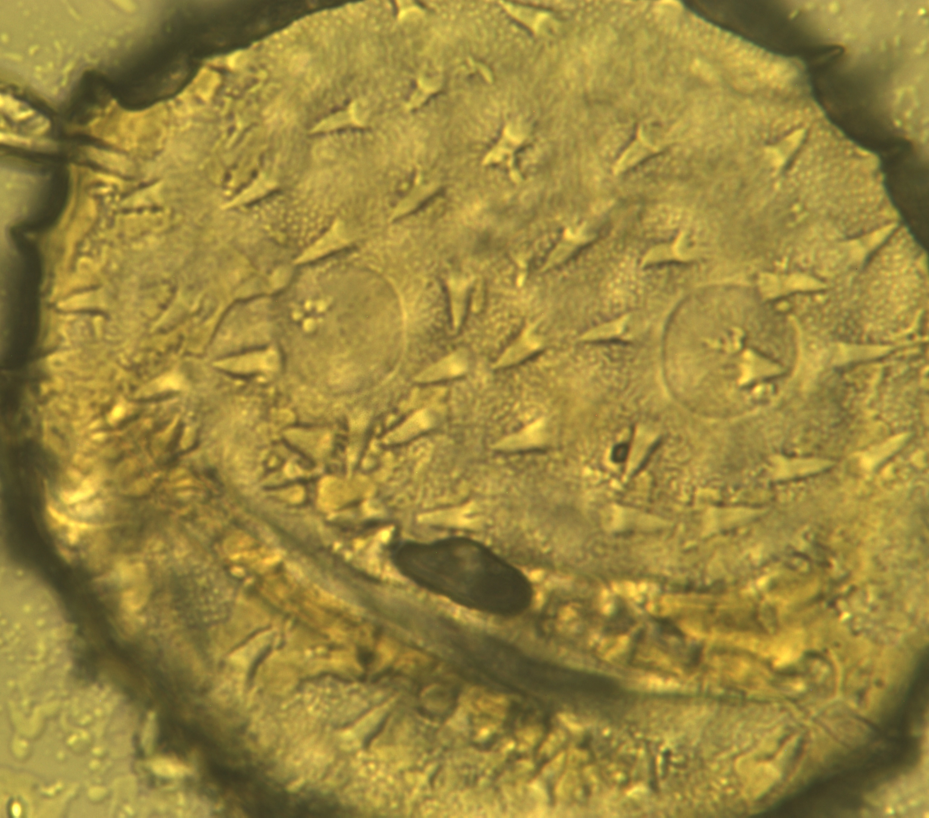 Cucurbita pepo Pollen 400x